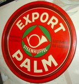 Very old and rare beertray from the palm brewery